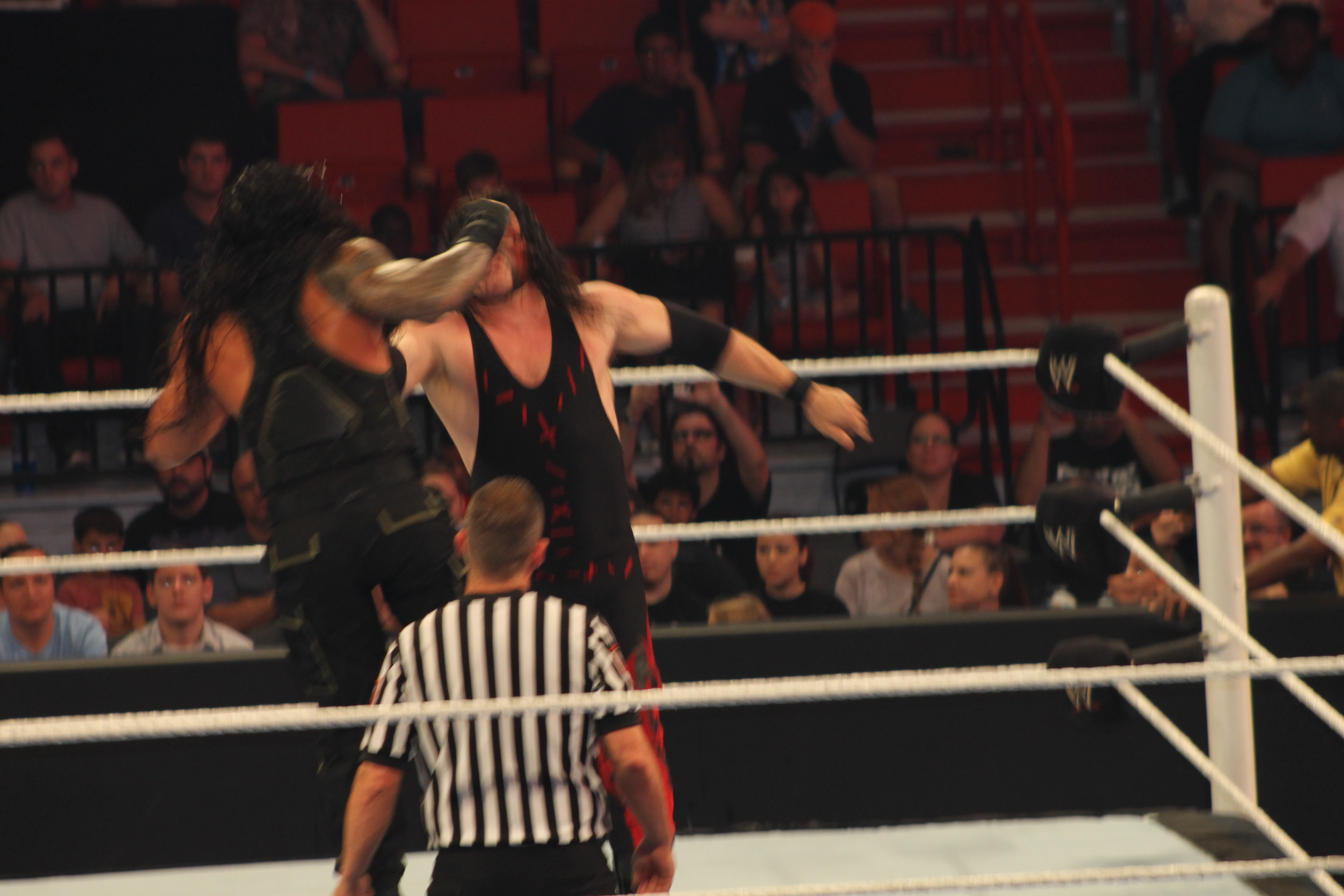 Roman Reigns goes for the Superman Punch on Kane.